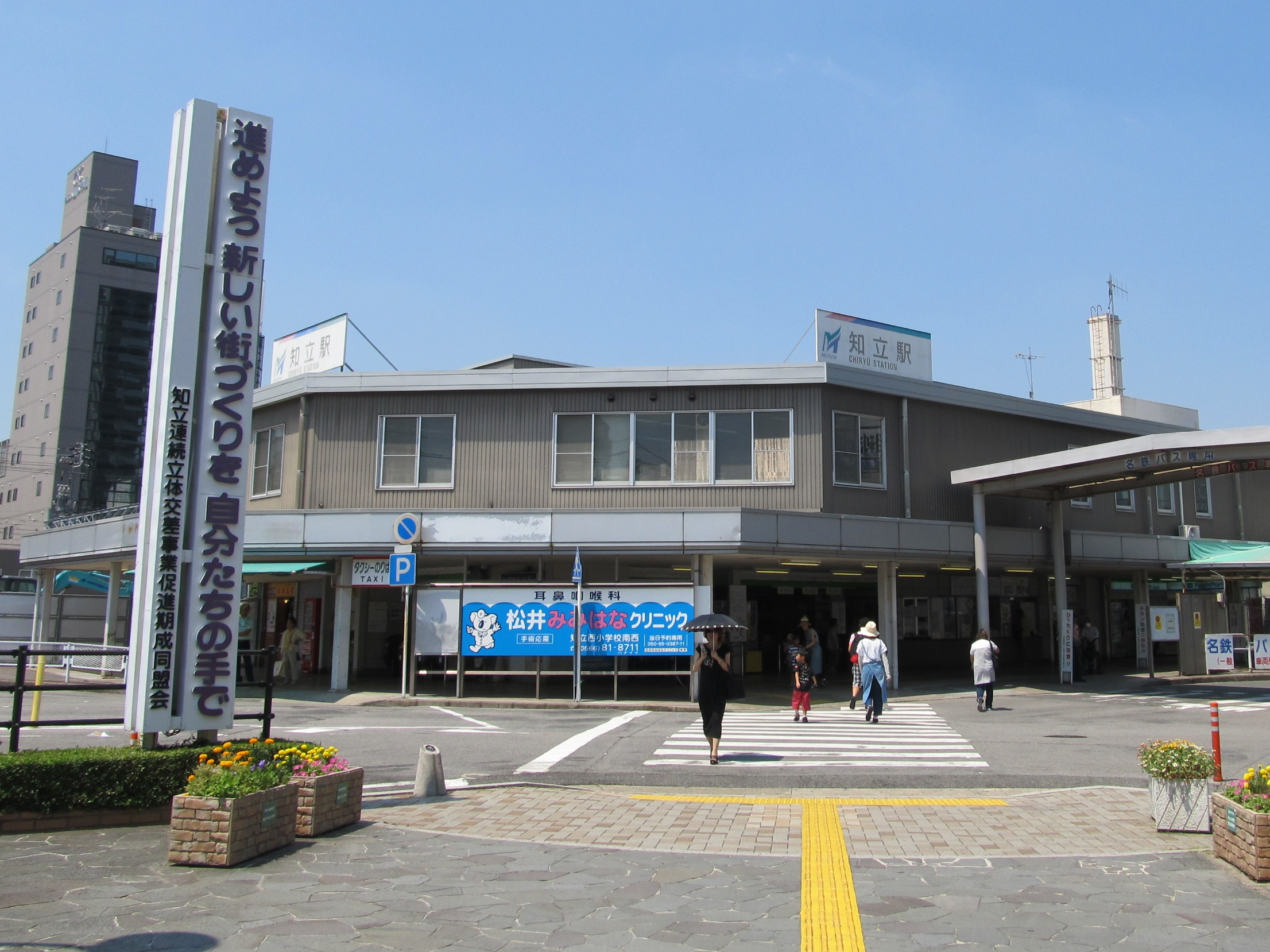 Nagoya Railroad Nagoya Main Line and Mikawa Line Chiryū Station Building